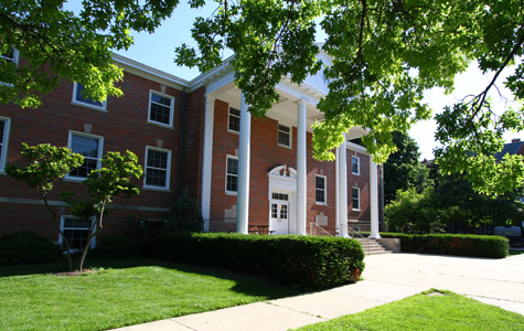 MSC At Wheaton